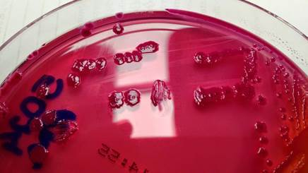 Phytobacter on MacConkey agar